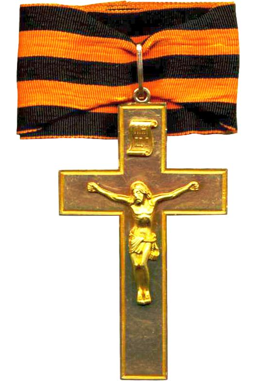 Golden pectoral cross on the St. George's ribbon (1787-1917)